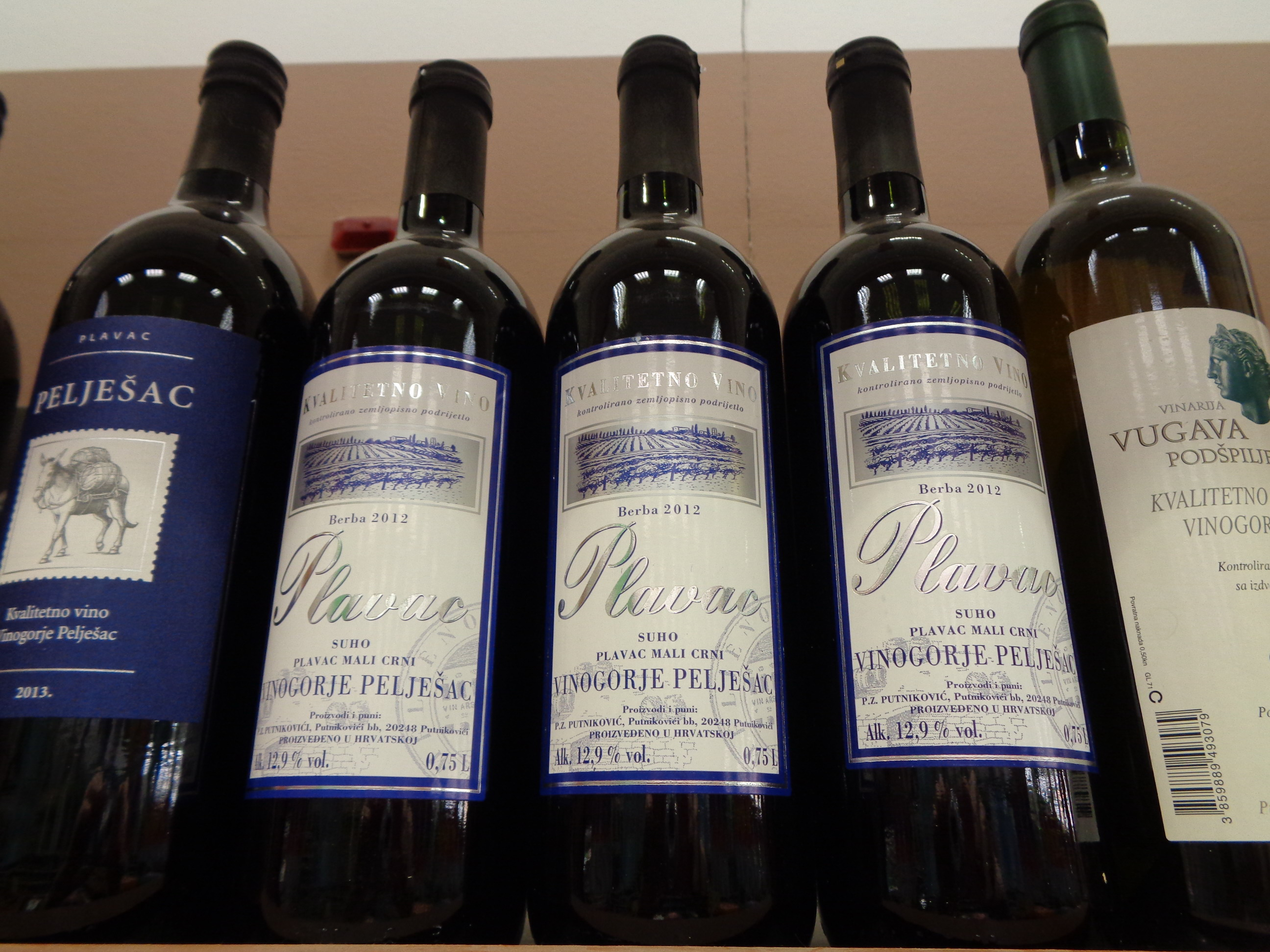 Bottles of Plavac wine, autochthonous quality dry red wine with controlled geographical origin, produced in specified region of Pelješac peninsula, Dubrovnik-Neretva County, Croatia, on a shelf